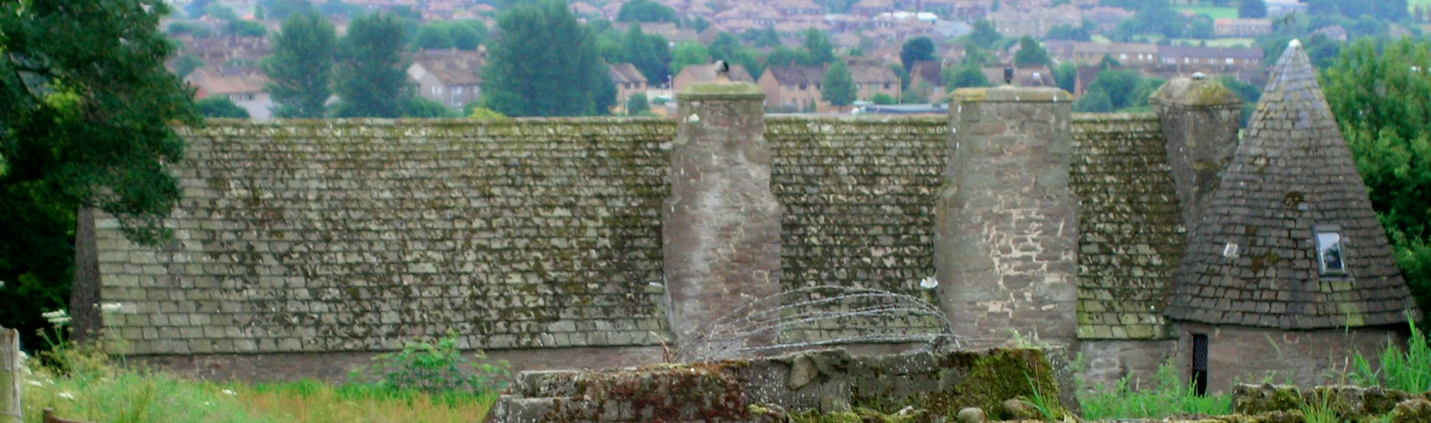 Powrie Castle, Dundee, United Kingdom. North Wing, viewed from the North. Unfortunatly the castle is on private property so this is pretty much the best view I could get of it at the time.